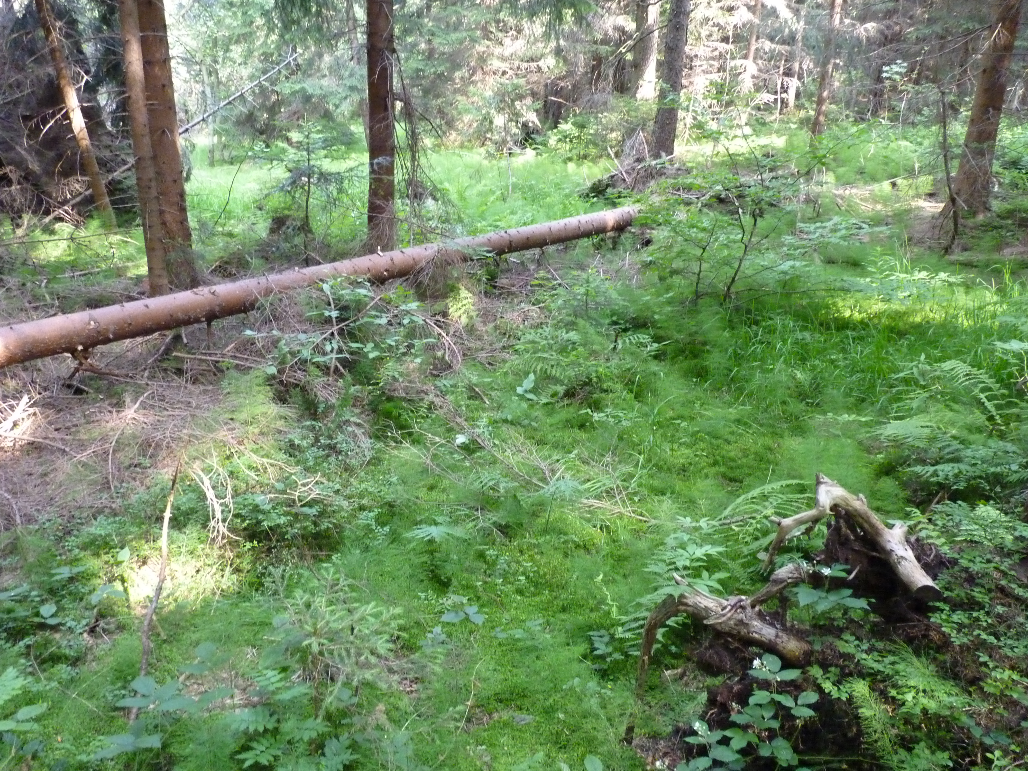 Natural monument Obidová, Moravia-Silesian Beskids, Czech Republic